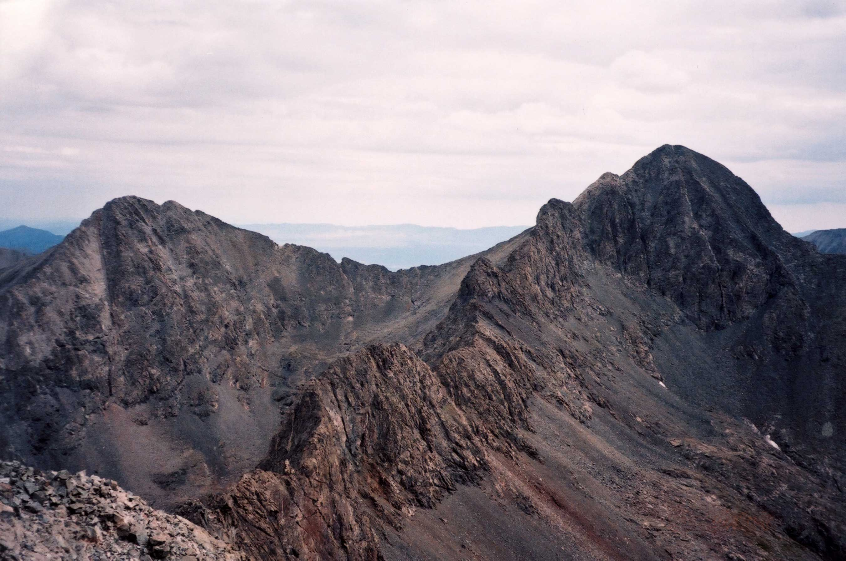 I took this photo of the connecting ridge between Little Bear Peak and Blanca Peak from the summit of Little Bear Peak. To the left is Como Basin, to the right the private property in Blanca Basin. This ridge might be the most demanding traverse in Colorado. The peak in the upper left is Ellingwood Point.